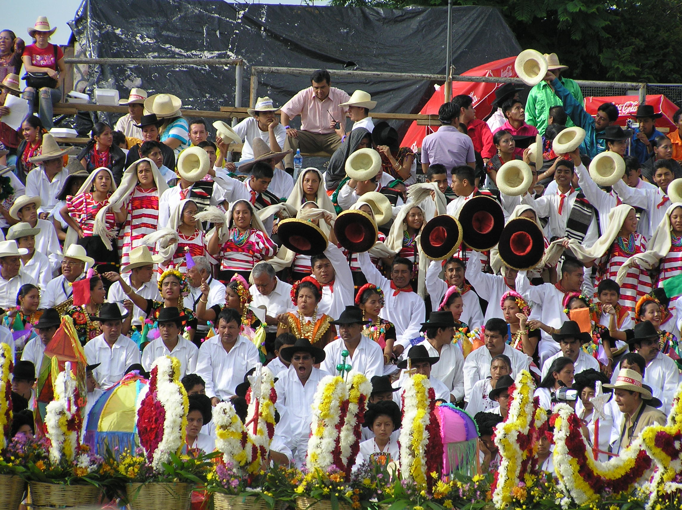 Indigenous people (Native Mexicans) from all parts of Mexican state of Oaxaca, participate wearing traditional clothes and artifacts, in a celebration known as "Guelaguetza". Guelaguetza is held every year by mid-July. Photograghy from the 2005 Guelaguetza.